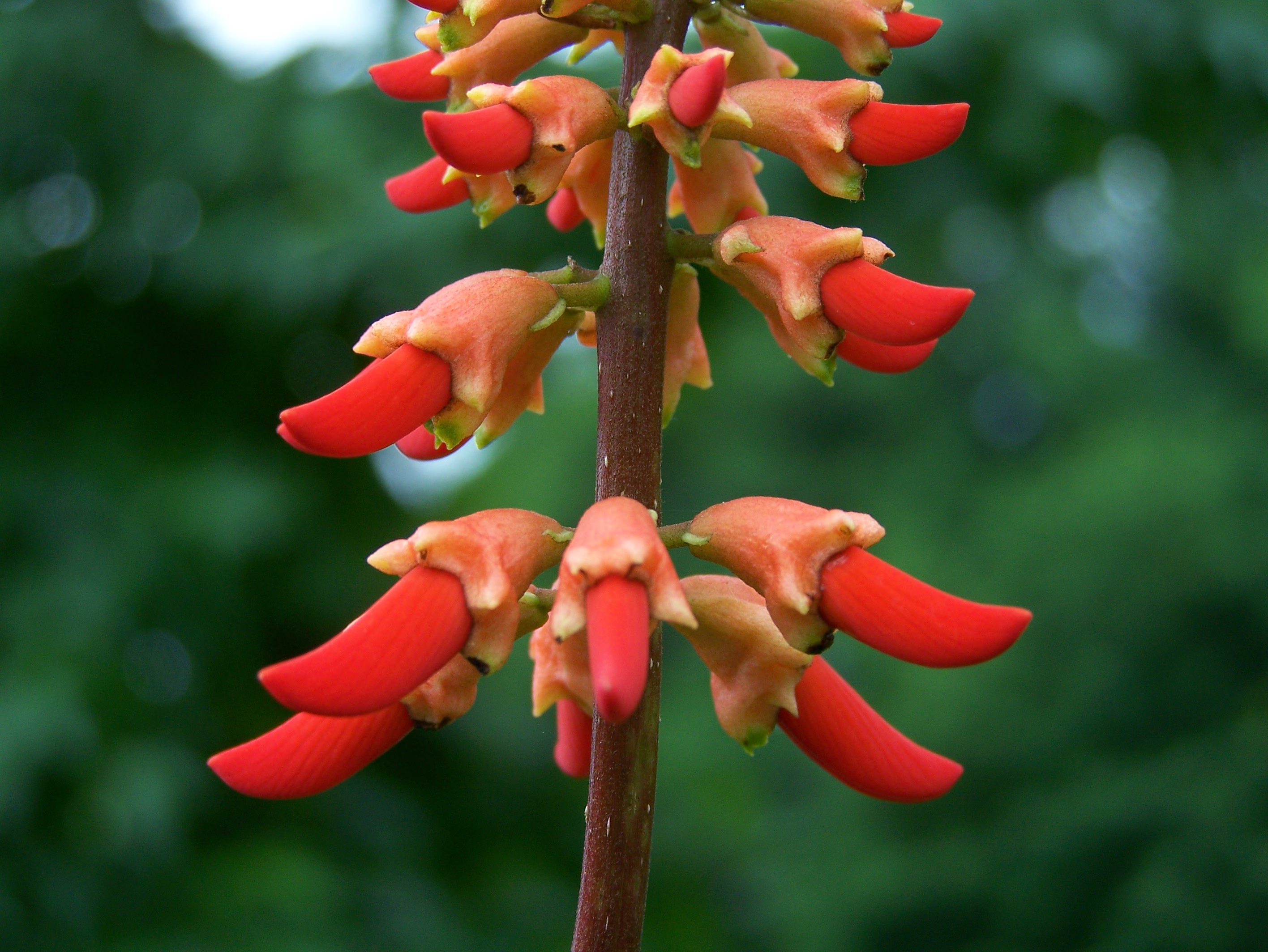 Species: Erythrina humeana Spreng. Common name: dwarf erythrina